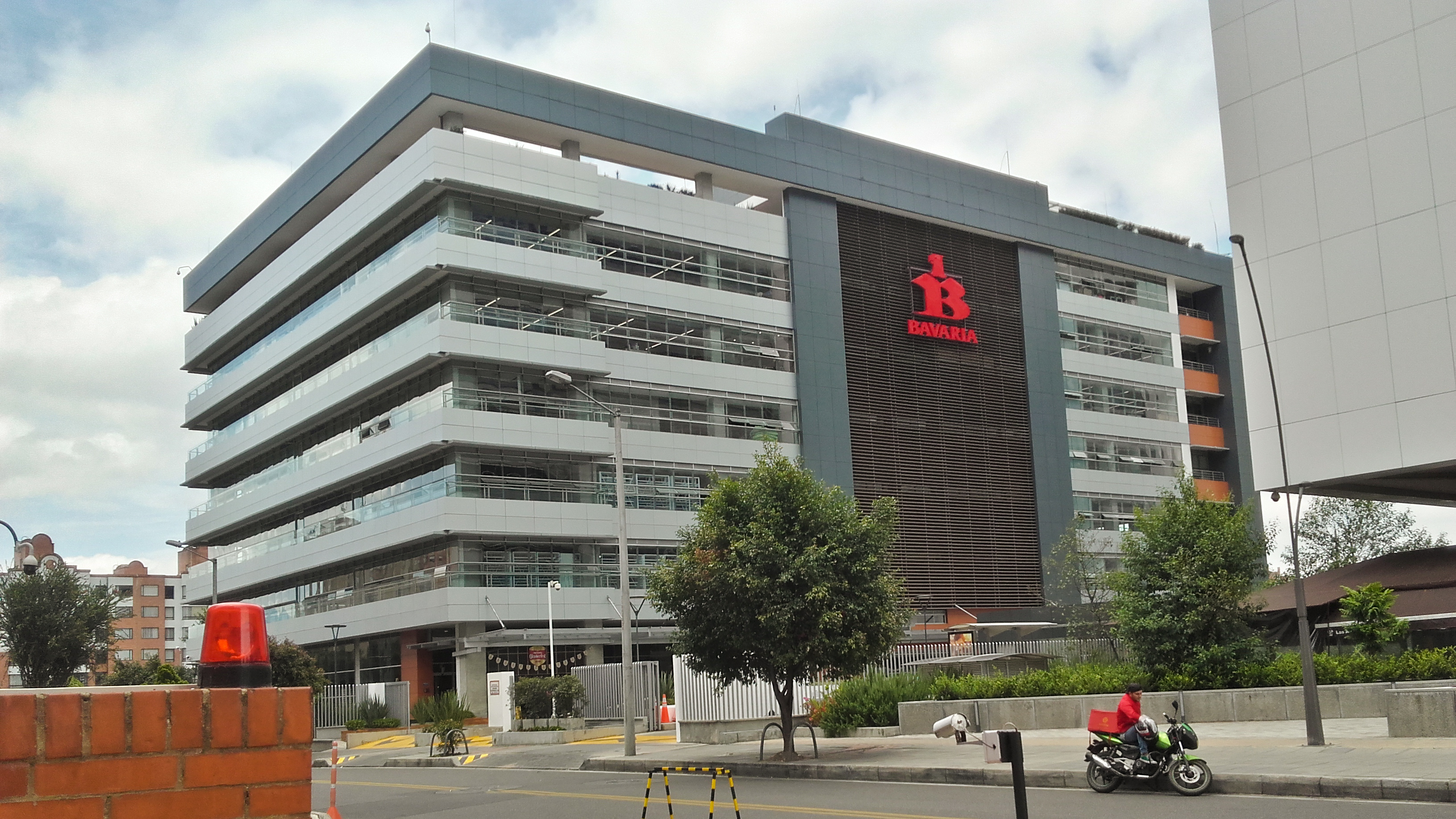 Sede Bavaria en Bogotá